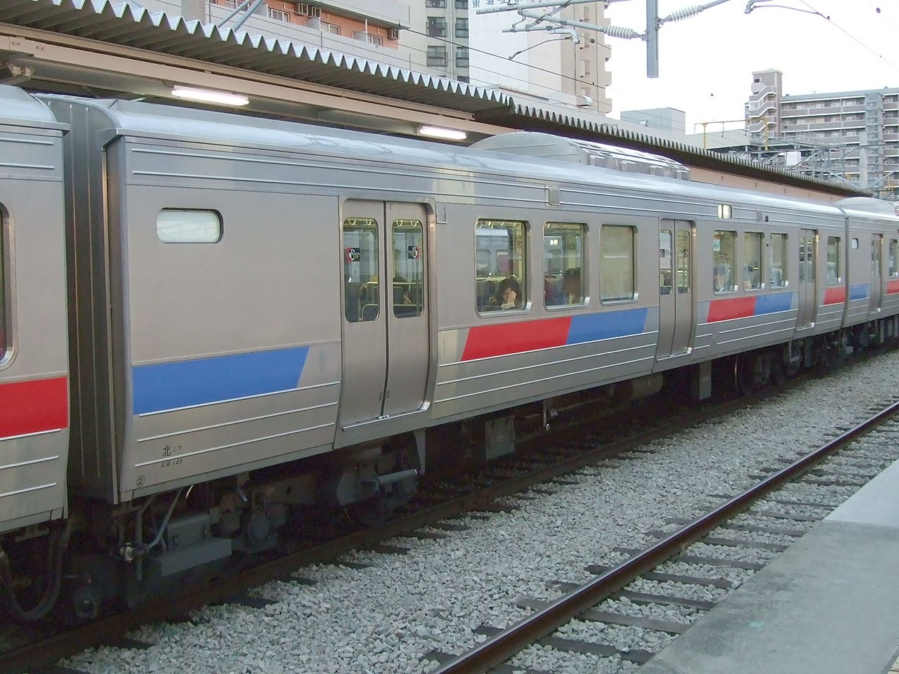 Kyushu Railway Company EMU Series811 I took the photo at Minami-Fukuoka Station, Fukuoka, Fukuoka, Japan.